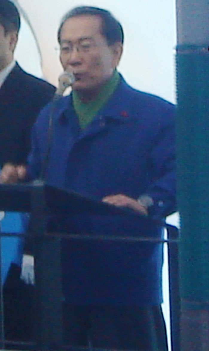 Lee Hoi-chang, South Korean politician.